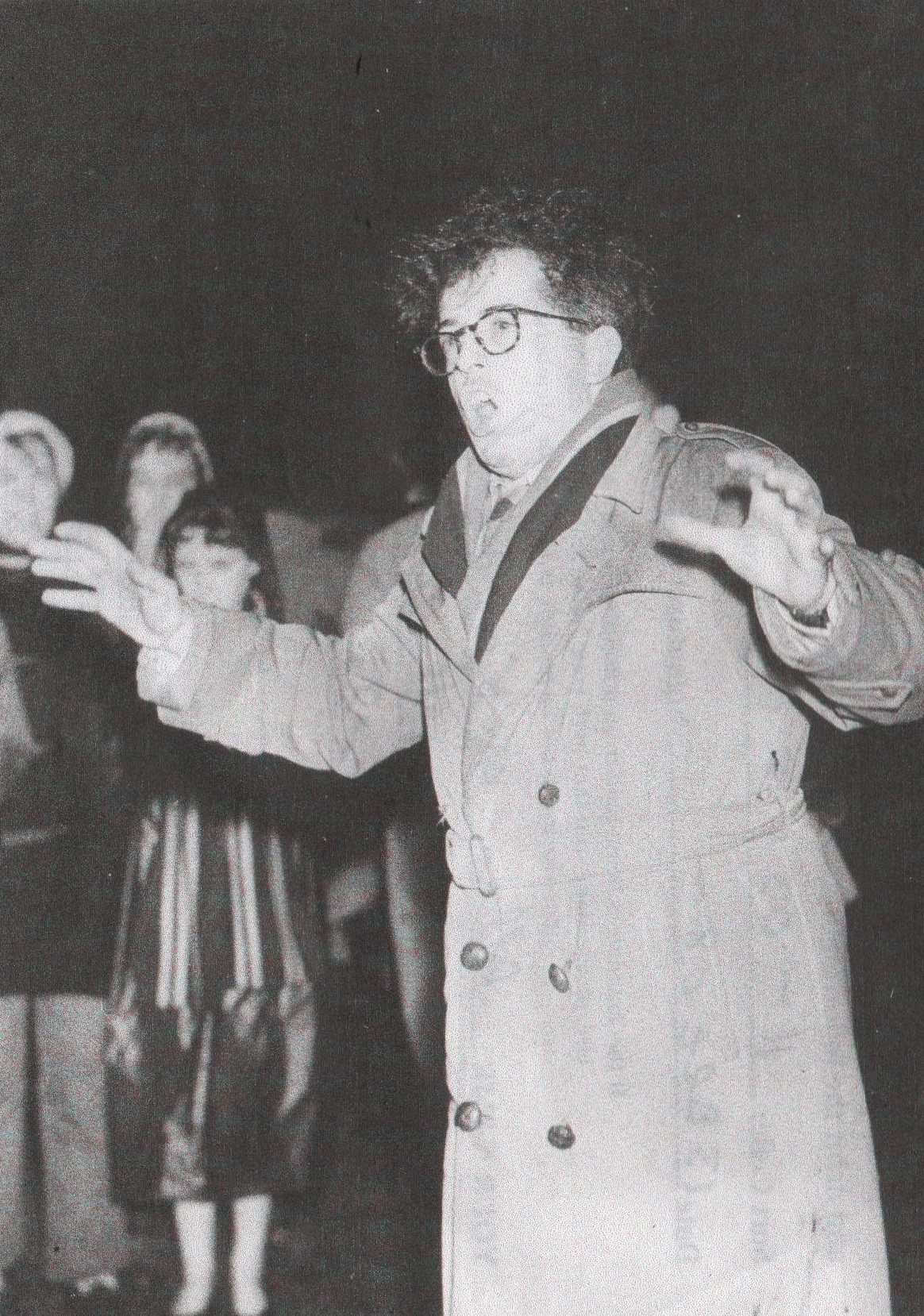 A young Kevin McNamara, then Secretary of Hull University students' union, leading a protest of Hull students in Hull city centreagainst the Franco-British invasion of Suez in 1956.